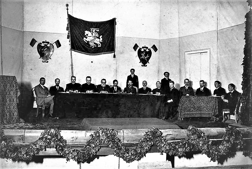 Vilnius Conference 1917 presidium and secretariat. From left: Peliksas Bugailiškis, Kazys Bikauskas, Kazimieras Šaulys, Justinas Staugaitis, Jonas Basanavičius, Steponas Kairys, Antanas Smetona, Jonas Vileišis, Povilas Dogelis, Juozas Paknys, Jurgis Šaulys, Mykolas Biržiška, Juozas Stankevičius, Petras Klimas. Note: the walls are decorated with proposed design of Flag of Lithuania (red-green two-color). Later yellow stripe was added.